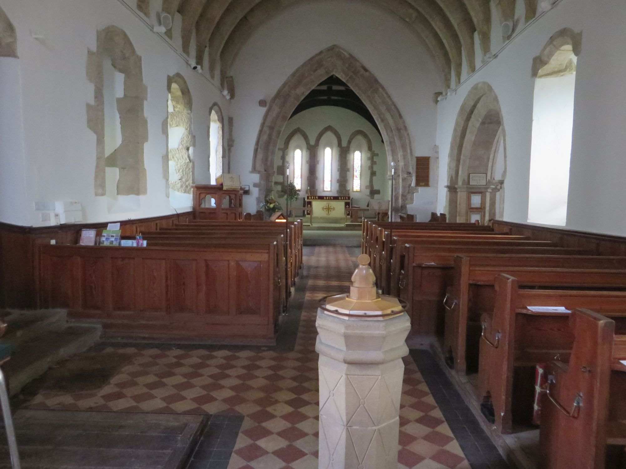 Interior of St Cuthbert's Parish Church, Bellingham